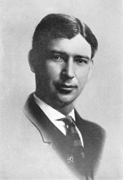 Sidney Preston Osborn (1884-05-17 – 1948-05-25), the seventh Governor of Arizona (1941-1948)